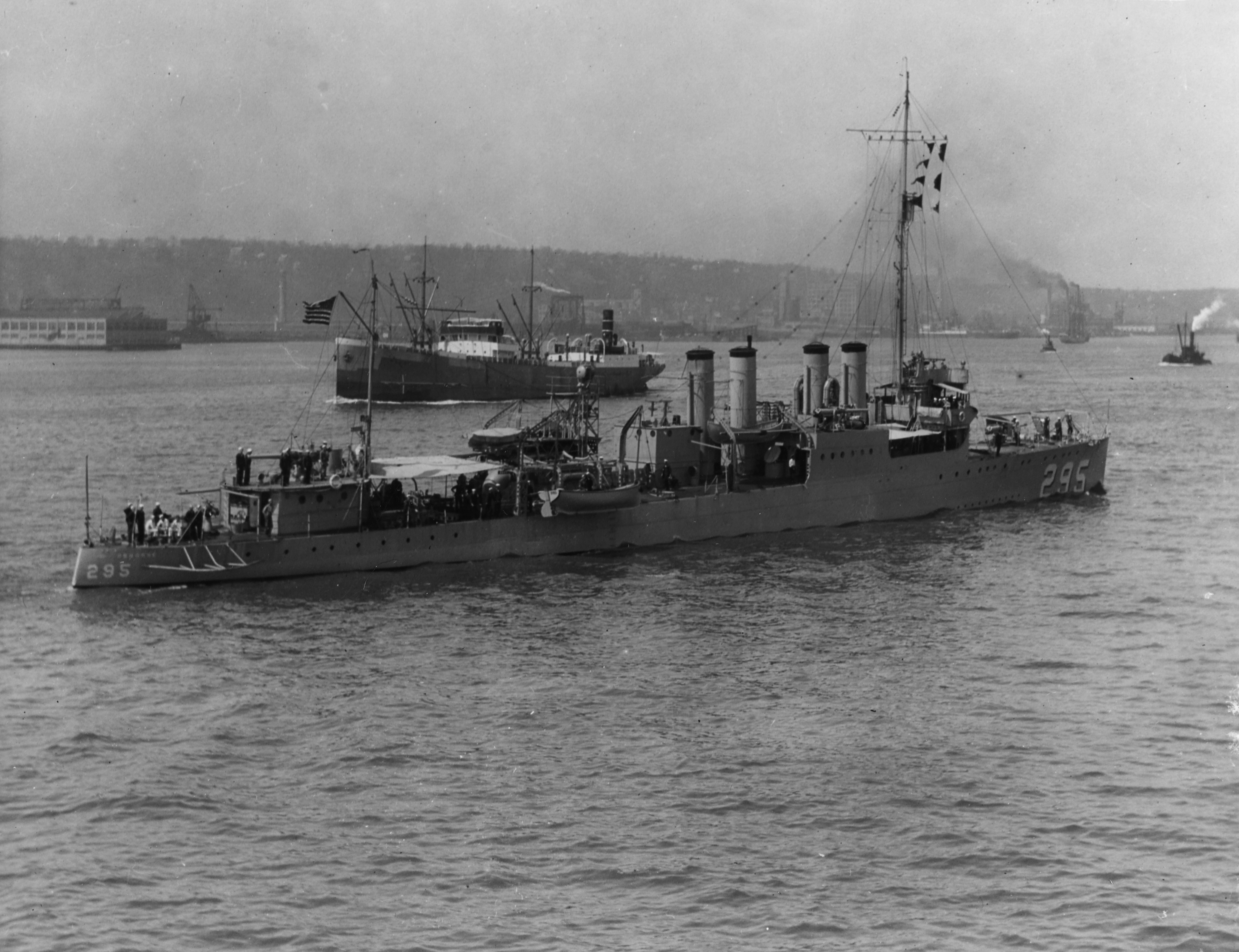 The U.S. Navy destroyer USS Osborne (DD-295) underway in the Hudson River, off New York City (USA), during the 1920s. Later Admiral Raymond A. Spruance was Osborne's Commanding Officer in 1925-1926.